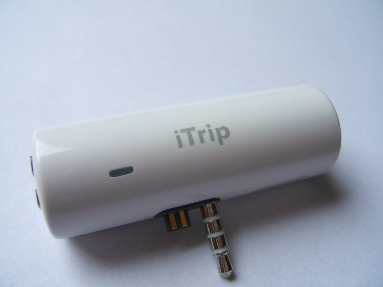 iTrip for the iPod